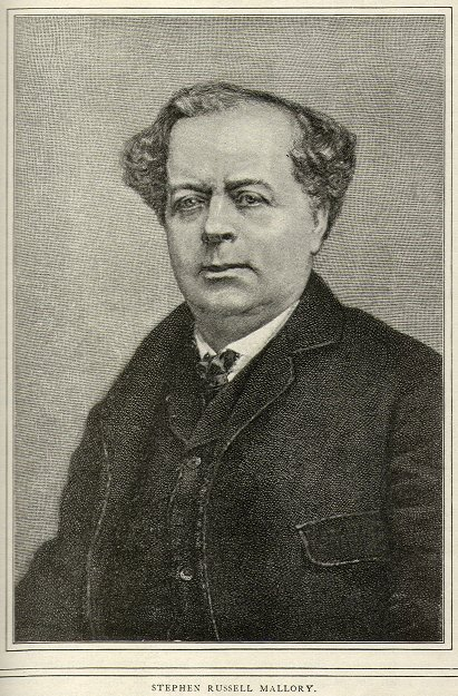 Stephen Russell Mallory, U.S. Senator. Photo-engraving from 1901 McClure's magazine. Caption says it is "considered by his family as his best portrait".